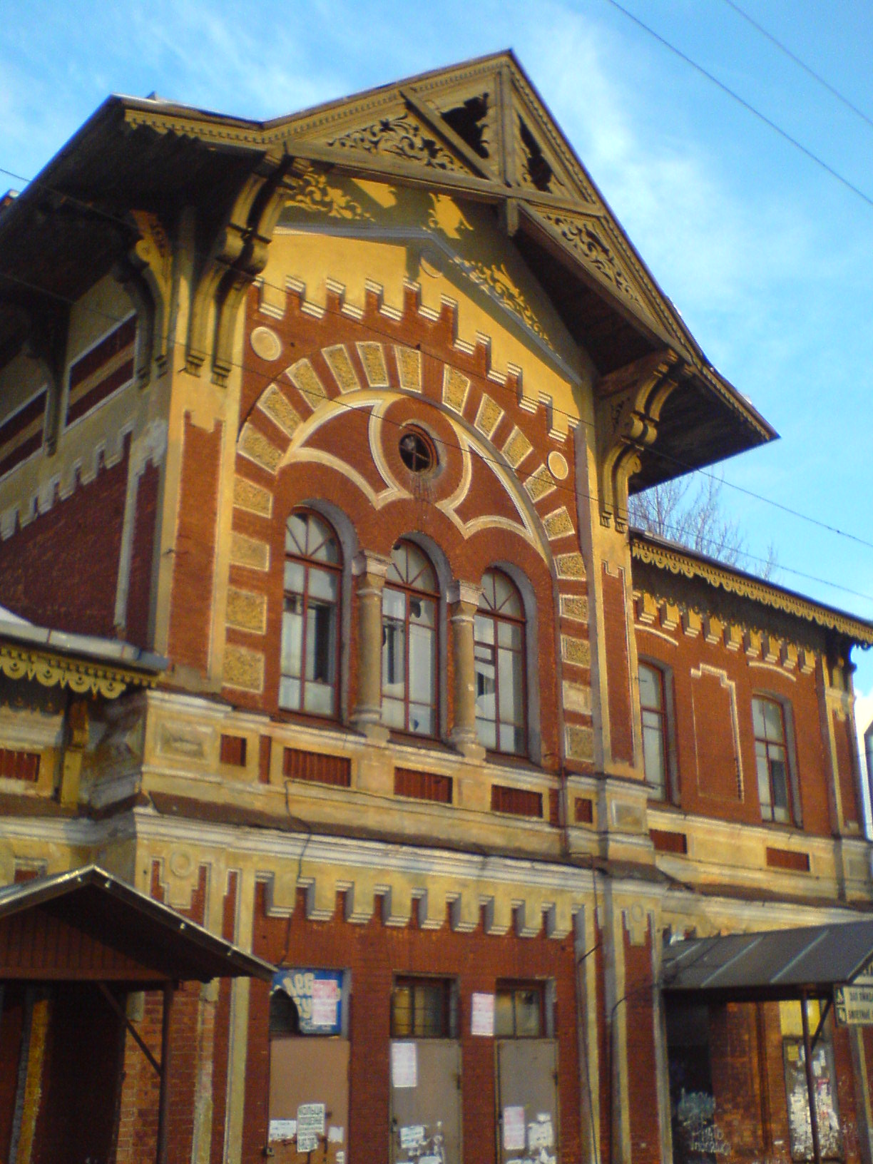 Railway_station_(p_Mozhajskij) near Saint Petersburg, Russia